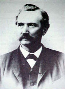 Anthony Murphy, supervisor of the Western and Atlantic Railroad machine shops More information